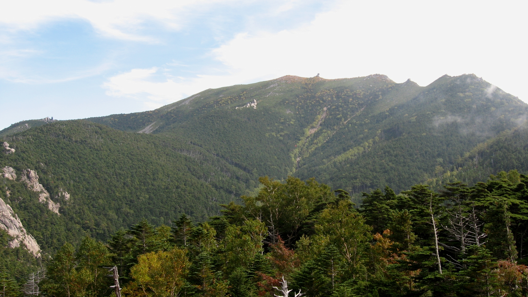 Mount Kinpu seen from the WNW. Taken from Dainichiiwa (Dainichi Rock).